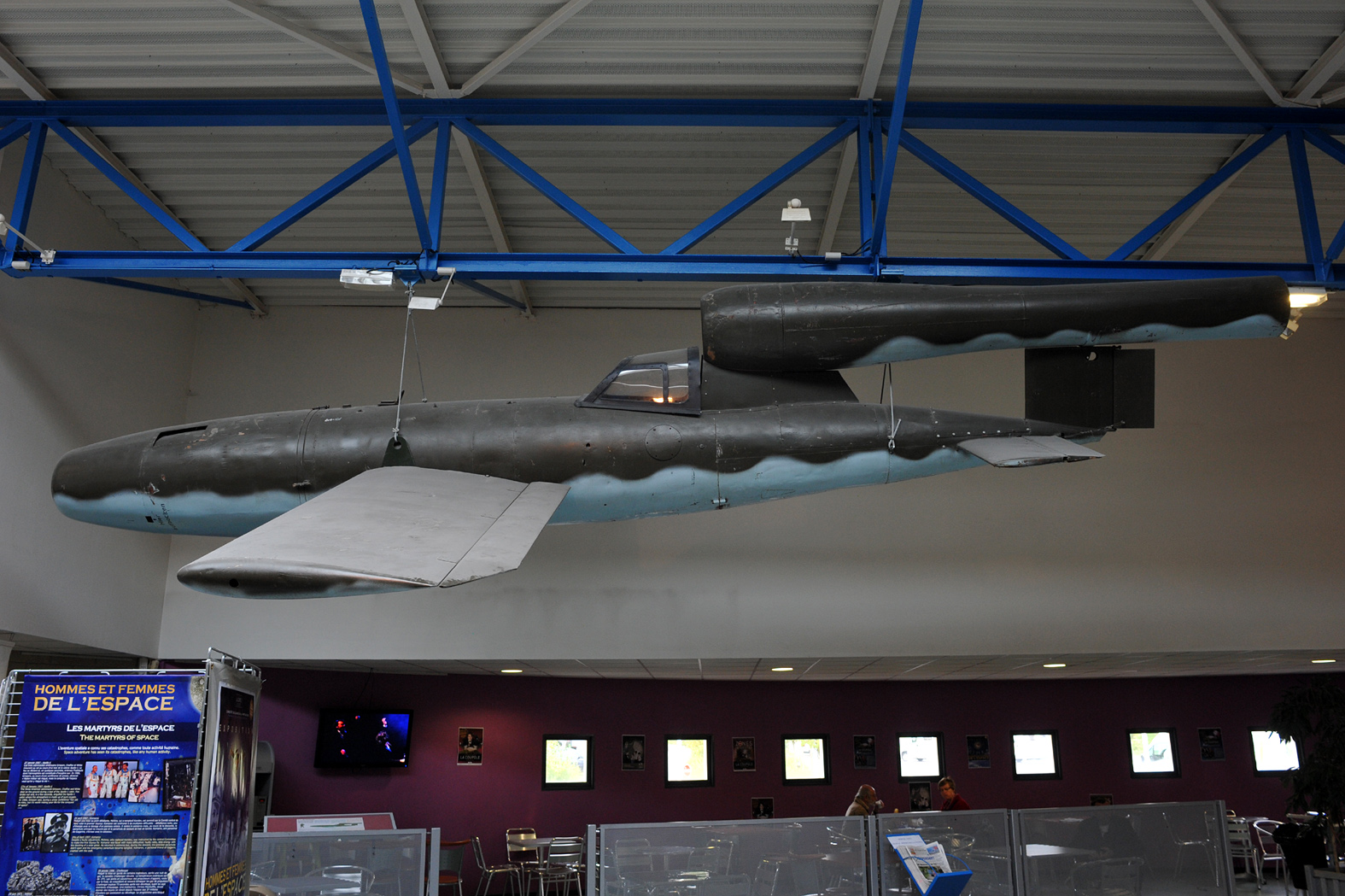 Fieseler Fi 103R-IV «Reichenberg-Gerät» No 126 in the museum La Coupole at Helfaut-Wizernes; Pas-de-Calais, France. The device is a loan from the city of Antwerp and is on display in the entrance hall.